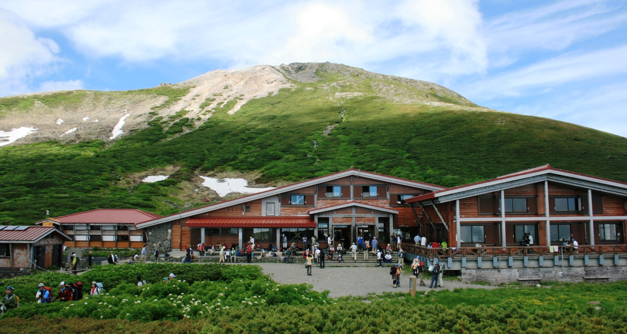 Murodo_visitor_center_in Mount Haku in Ryōhaku Mountains, Japan.